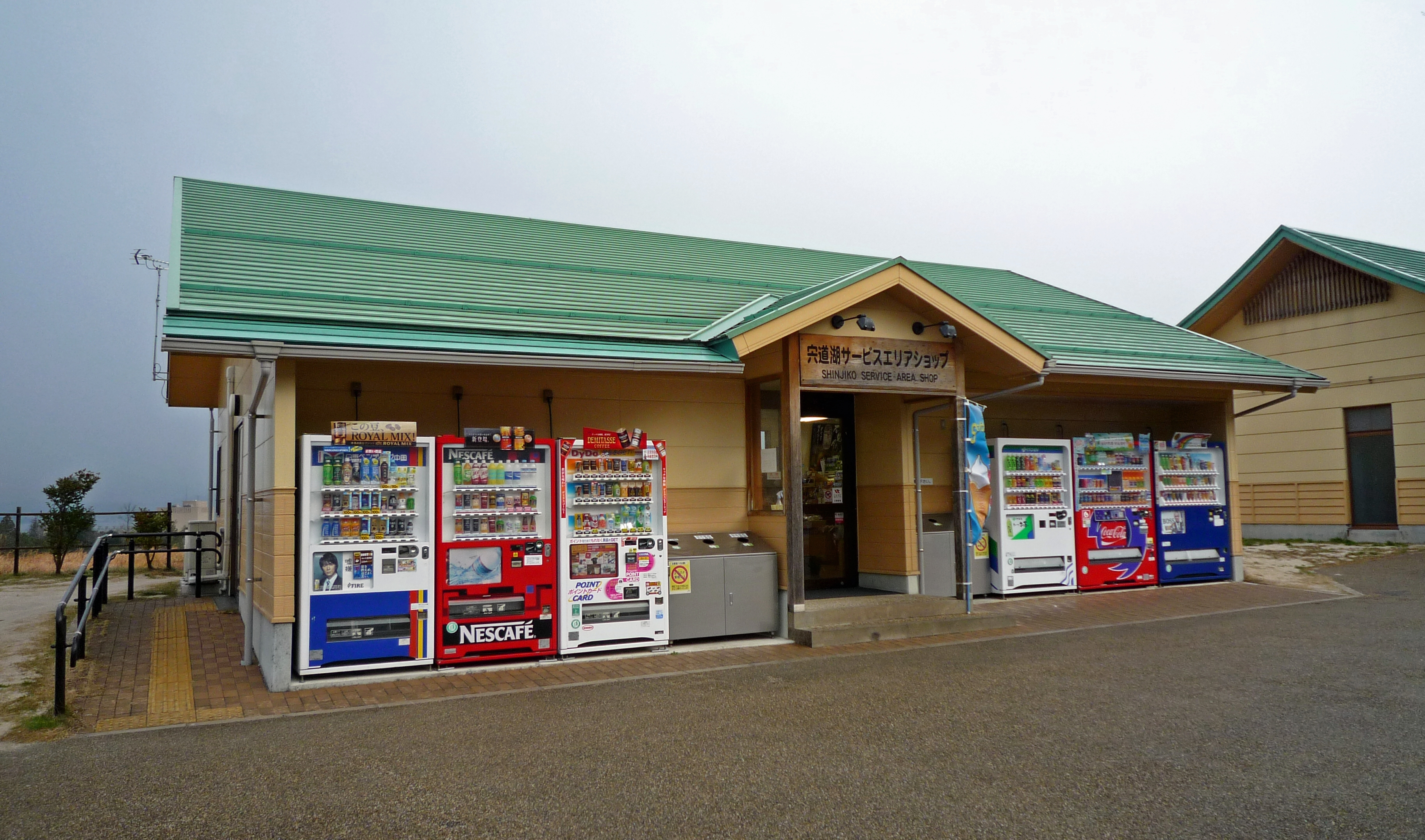 Shinjiko Service Area Shop (Down Line) in Shinjiko Service Area of San'in Expressway at Matsue City, Shimane Prefecture, Japan.